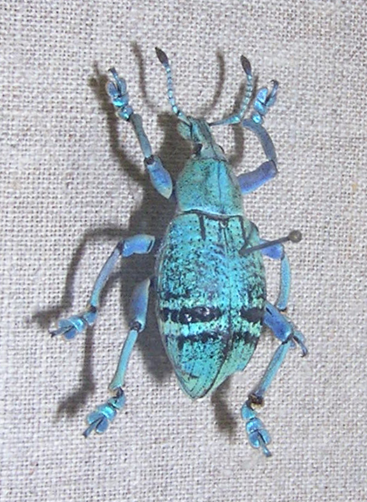 Eupholus azureus, Saint Peterburg Museum of Zoology, Russia.